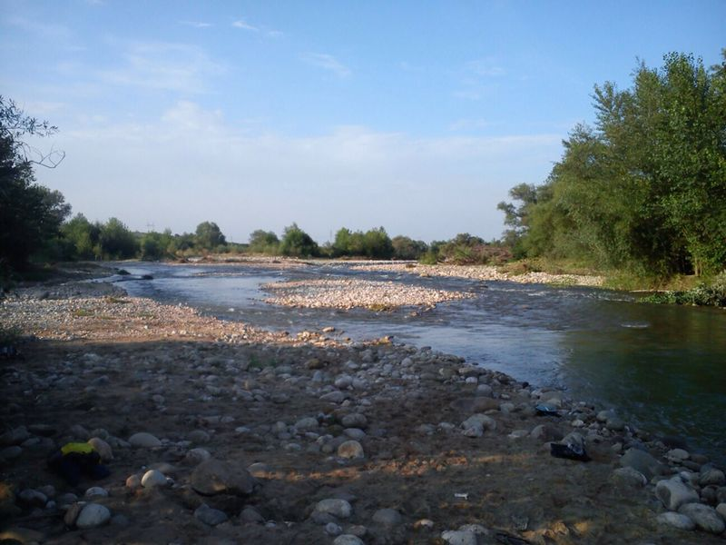 Lesken river near the village Anzorey